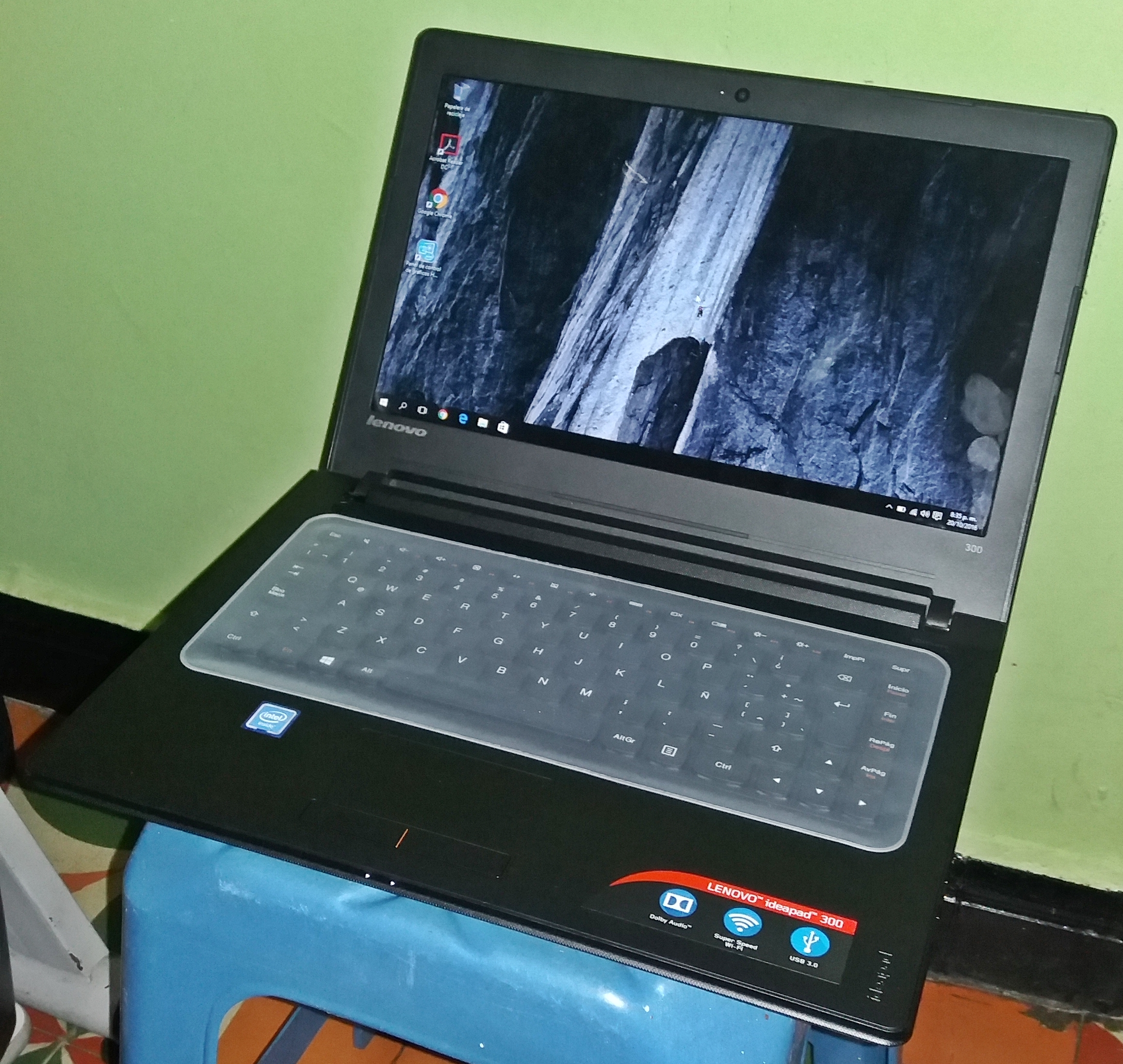 Lenovo IdeaPad 300 14 running Windows 10 Pro x64 with Intel Celeron N3060 1.60GHz, 4 GB RAM, 1 TB HDD